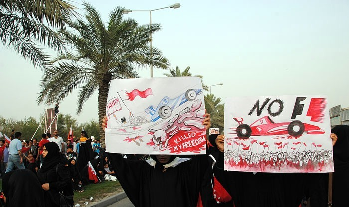 Two female protesters holding Anti-F1 sign during a march on Budaiya highway